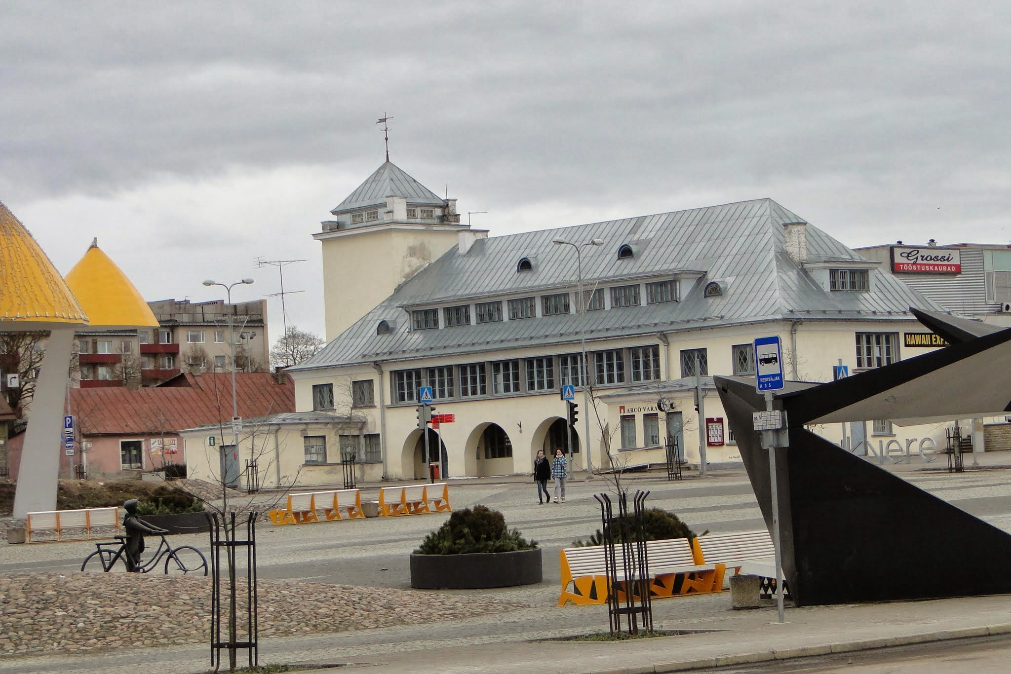 Main square